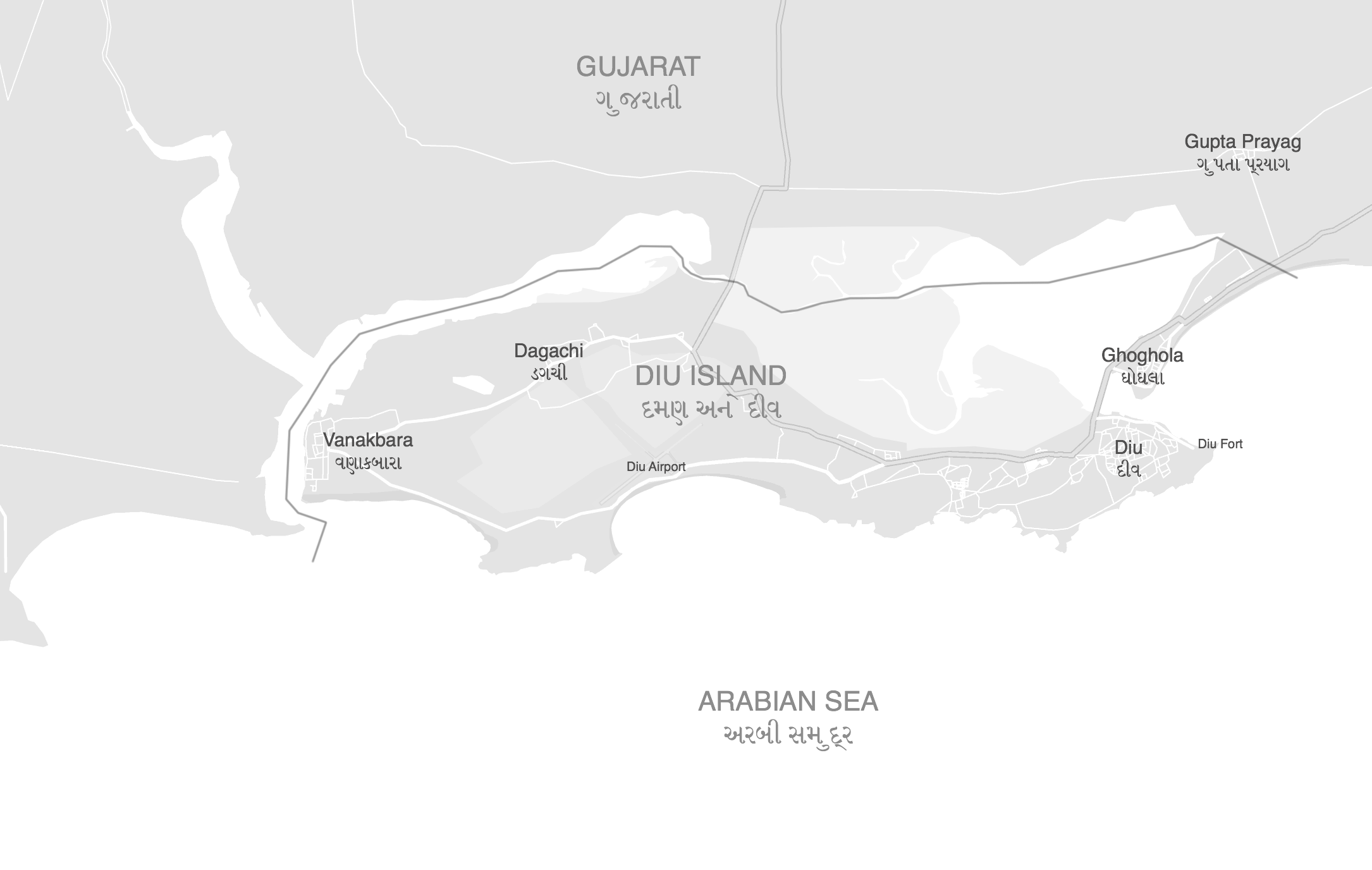 Simple map of Diu Island off the coast of Gujarat.